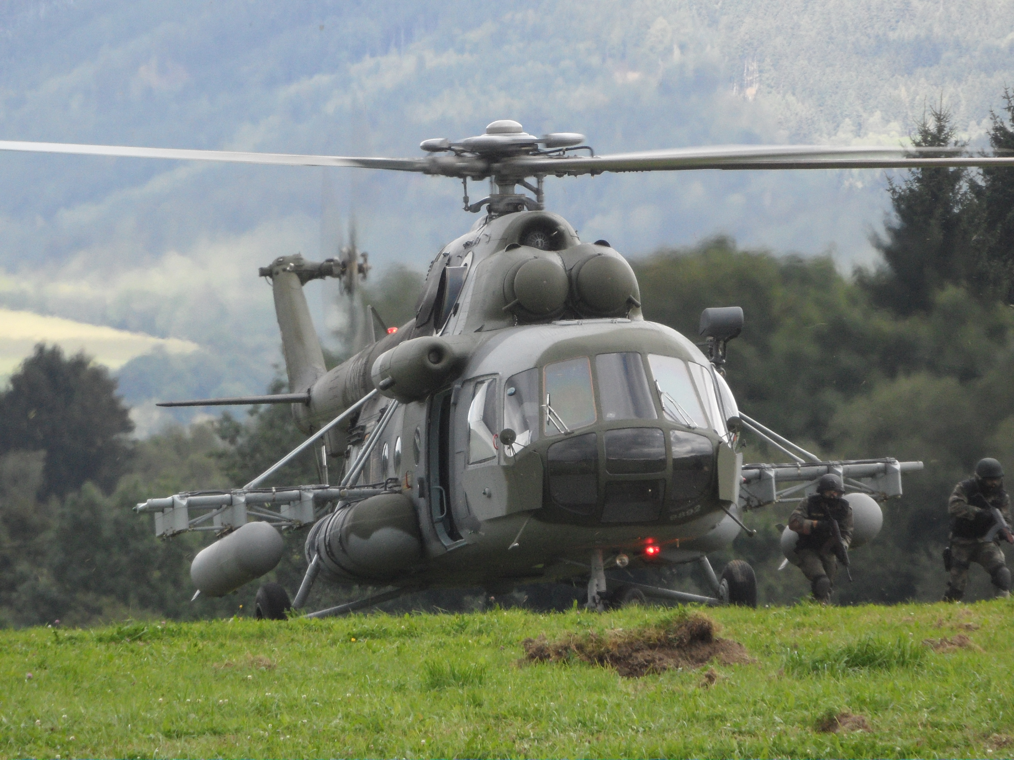 Akce Cihelna 2014 C3. Presentation with Landing from Helicopter, Králíky, Ústí nad Orlicí District, the Czech Republic.